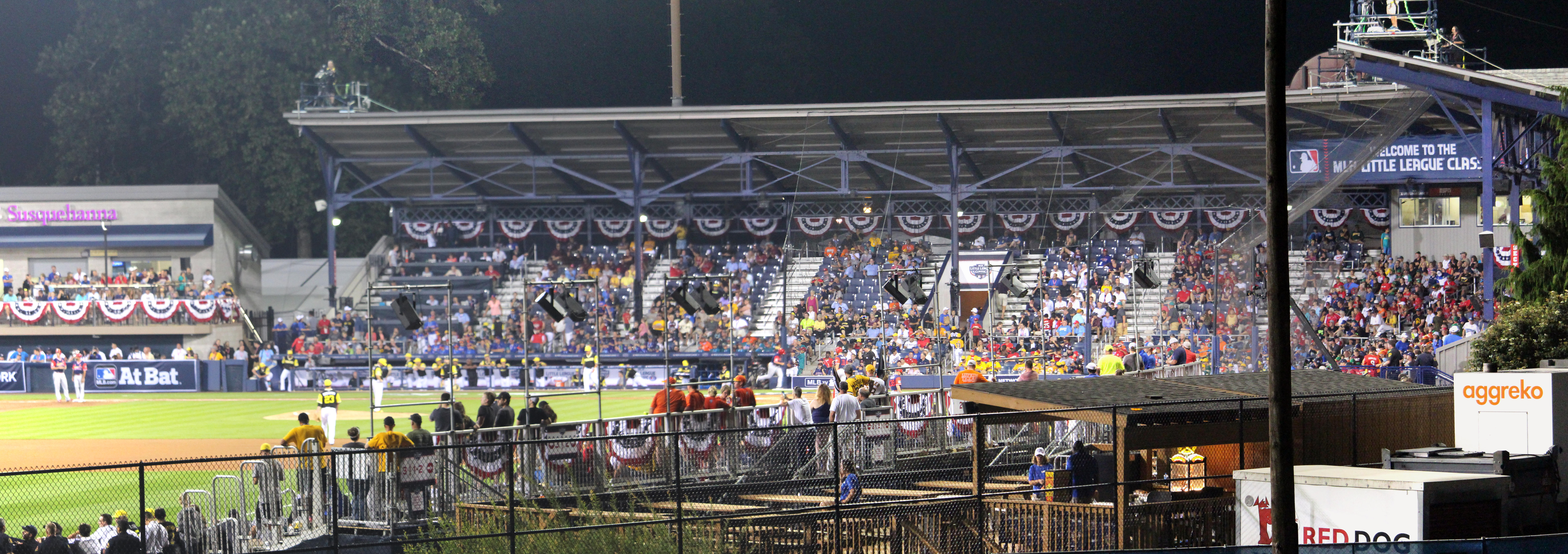 Major League Baseball's Little League Classic game between the Pittsburgh Pirates and St. Louis Cardinals at Bowman FIeld in Williamsport, PA, USA on August 20, 2017 (stitched with Microsoft ICE)